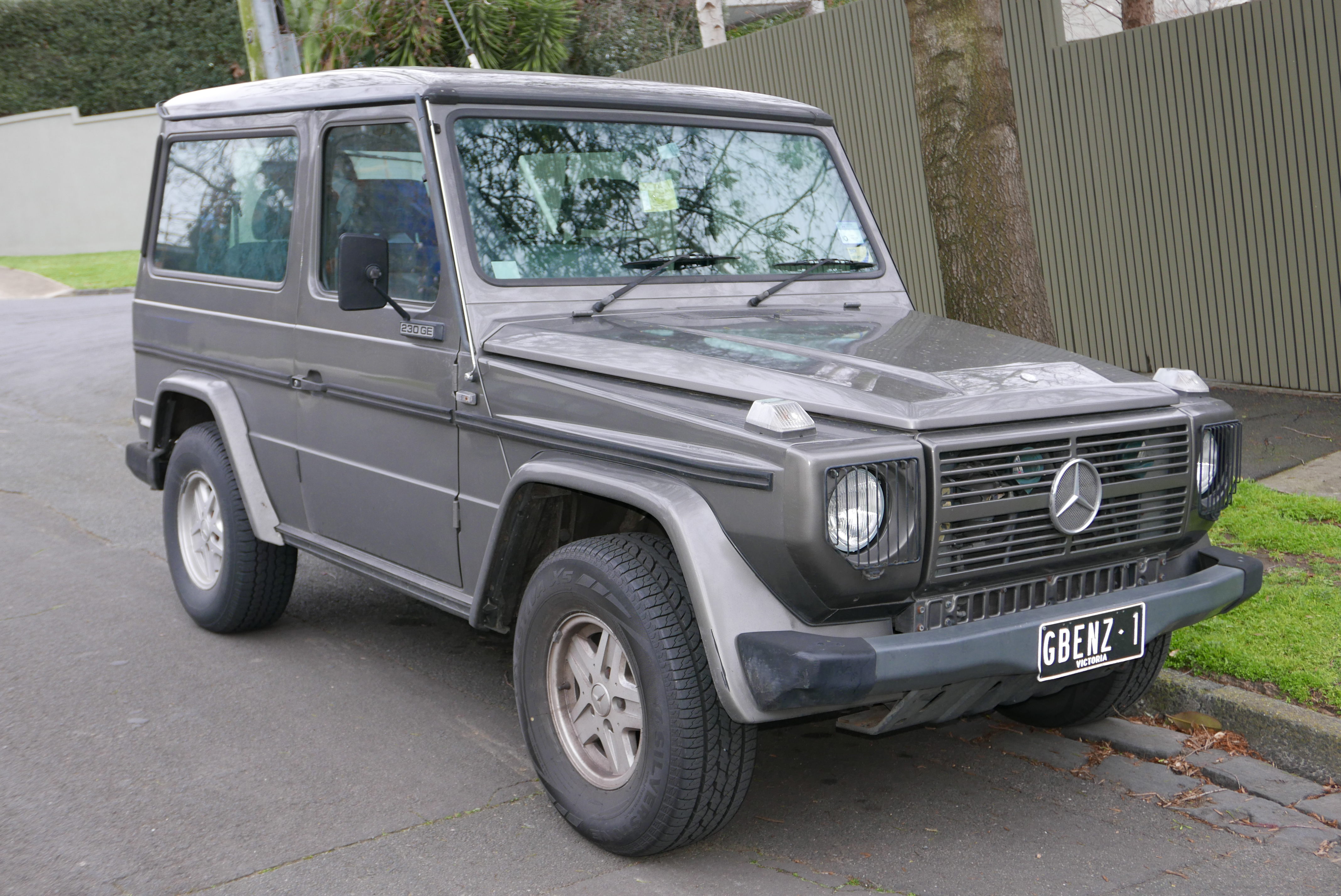 1987 Mercedes-Benz 230 GE (G 460) 3-door wagon. This is a grey import from Japan, complianced for Australia at an unknown date (the vehicle registration information below is incorrect). Photographed in Toorak, Victoria, Australia. Vehicle registration enquiry results Jurisdiction Victoria Registration GBENZ1 Chassis code WDB46023827055763 Engine code 10298712000532 Compliance date 1900-01 Year of manufacture 1987